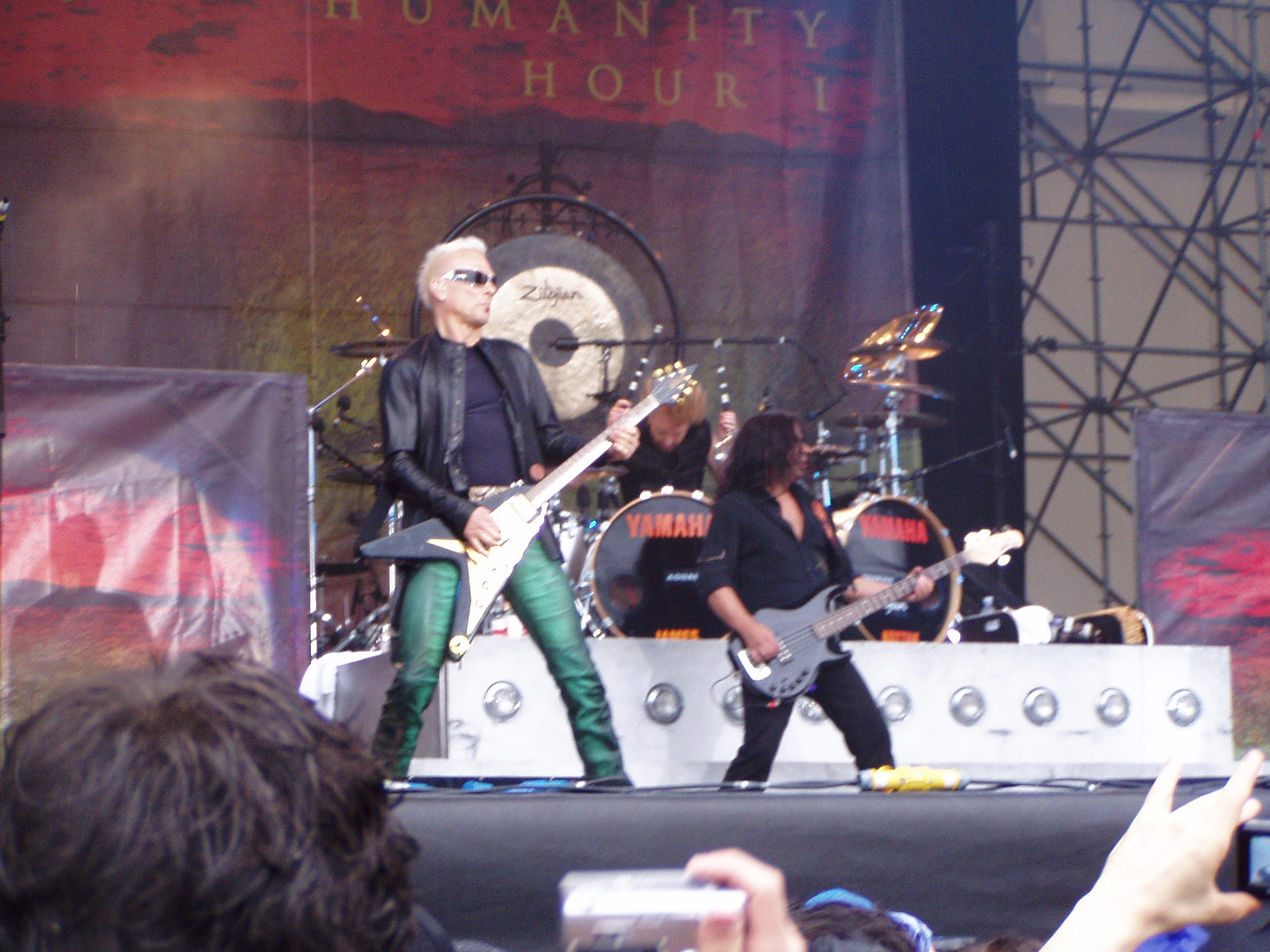 Gli Scorpions al Gods of Metal 2007